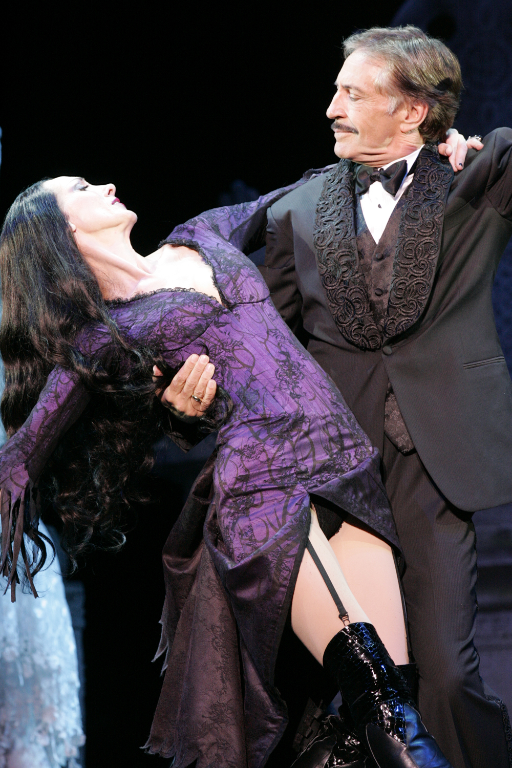 The Addams Family Media Event